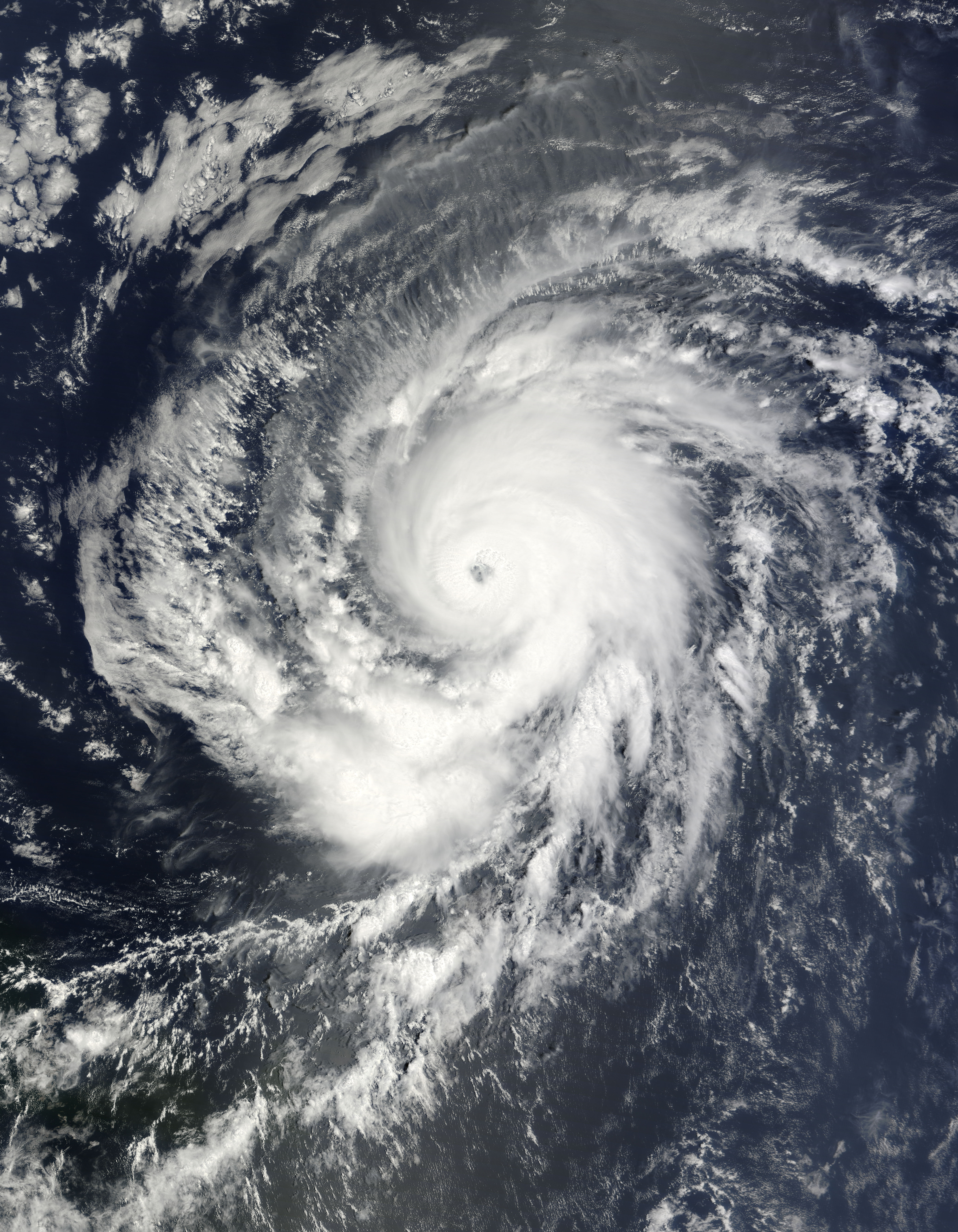 Hurricane Fred rapidly strengthening.